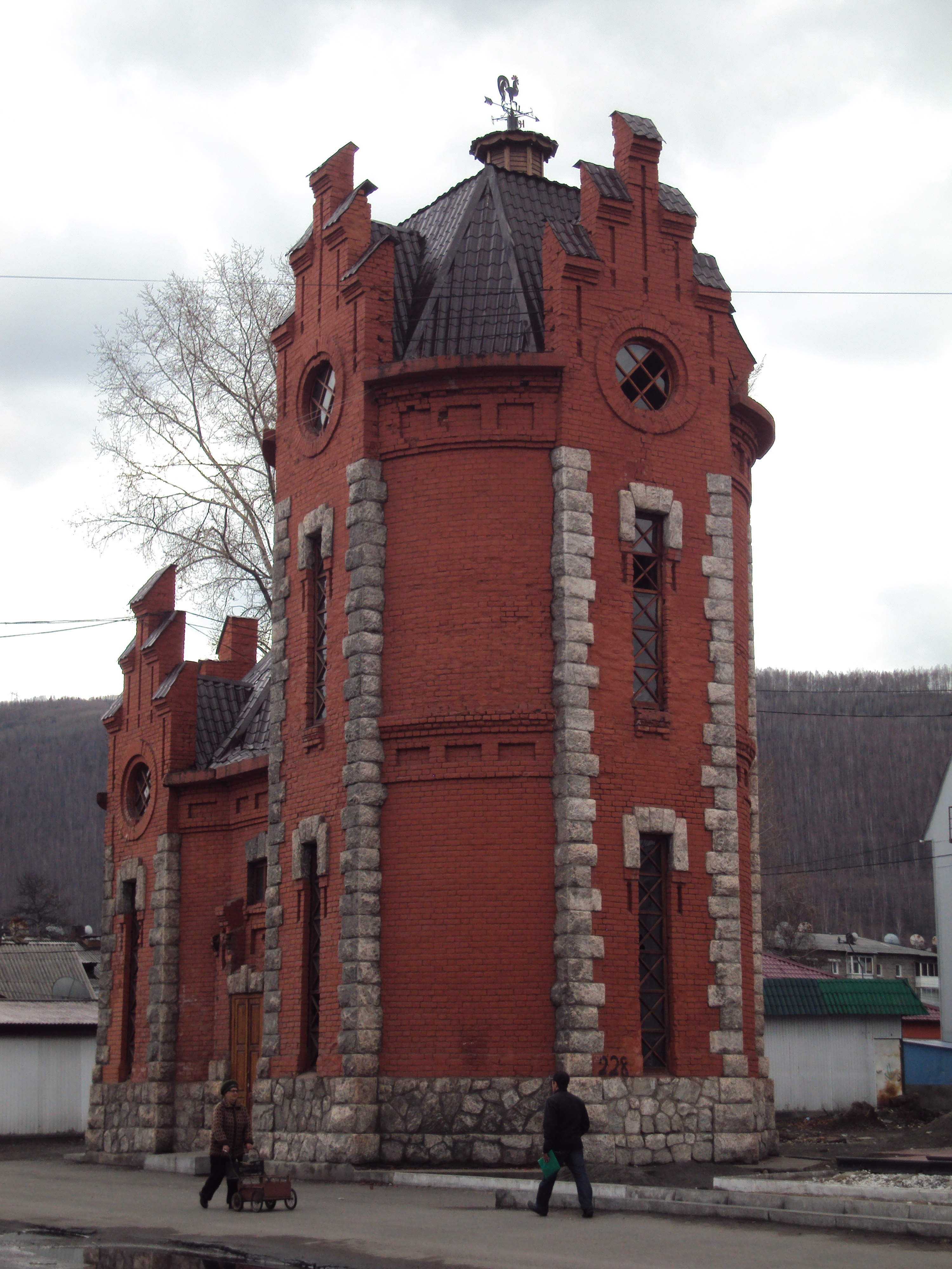 A tower in Slyudyanka, Irkutsk Oblast', Russia.